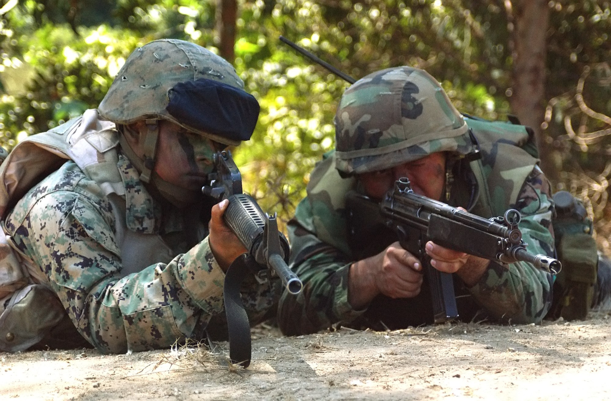 A Marine from 5th FAST Platoon and a Chilean Marine sight in on their objective near Valparaiso, Chile. The Marines from 2d FAST Company deployed there to train along side their counterparts from the Chilean Marine Corps, who are preparing for a deployment to Haiti.